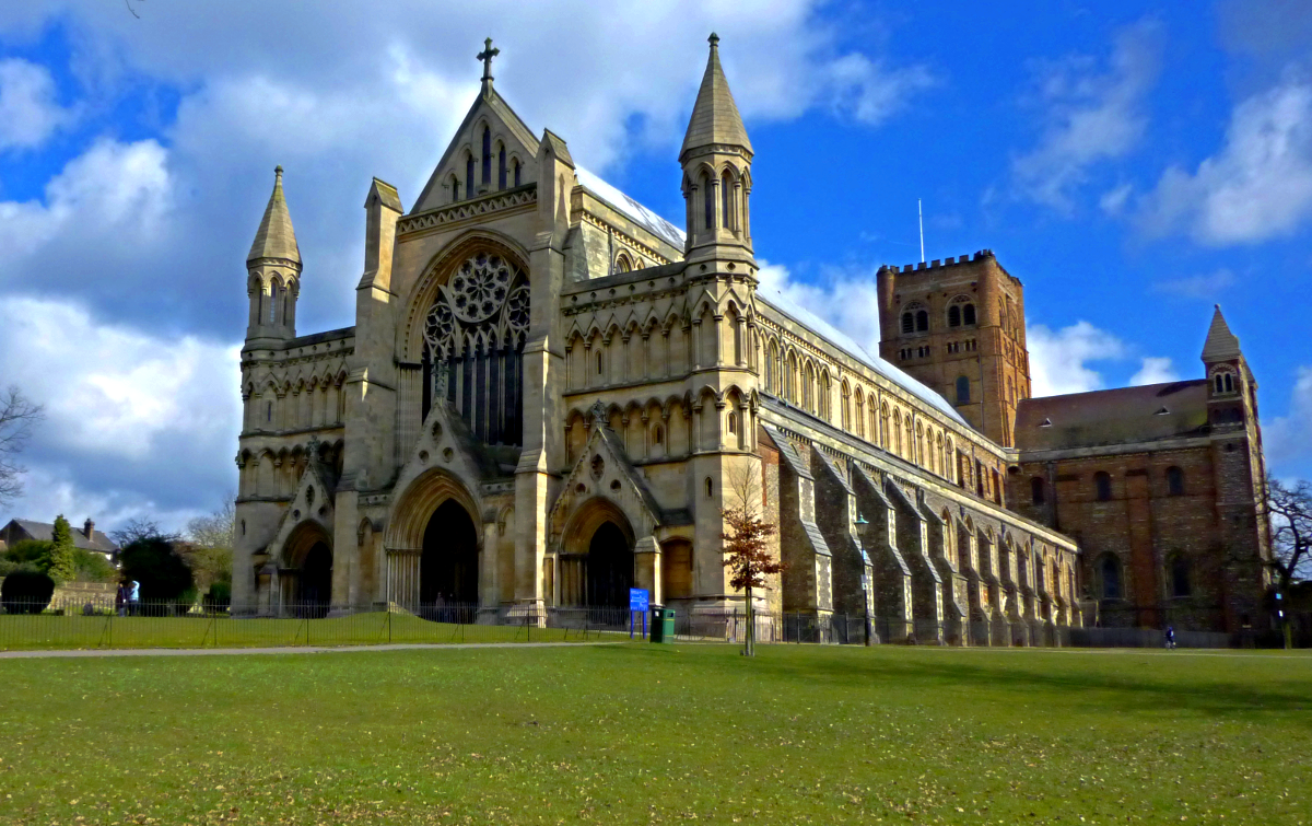 Photograph of Saint Albans Cathedral see more at if you wish to use this please link to my gallery (above)